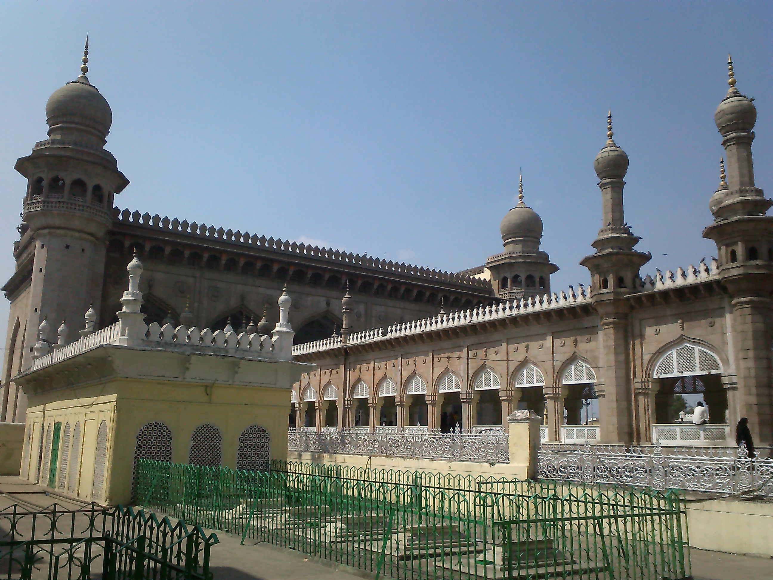 Mecca Masjid seen from the Library gate